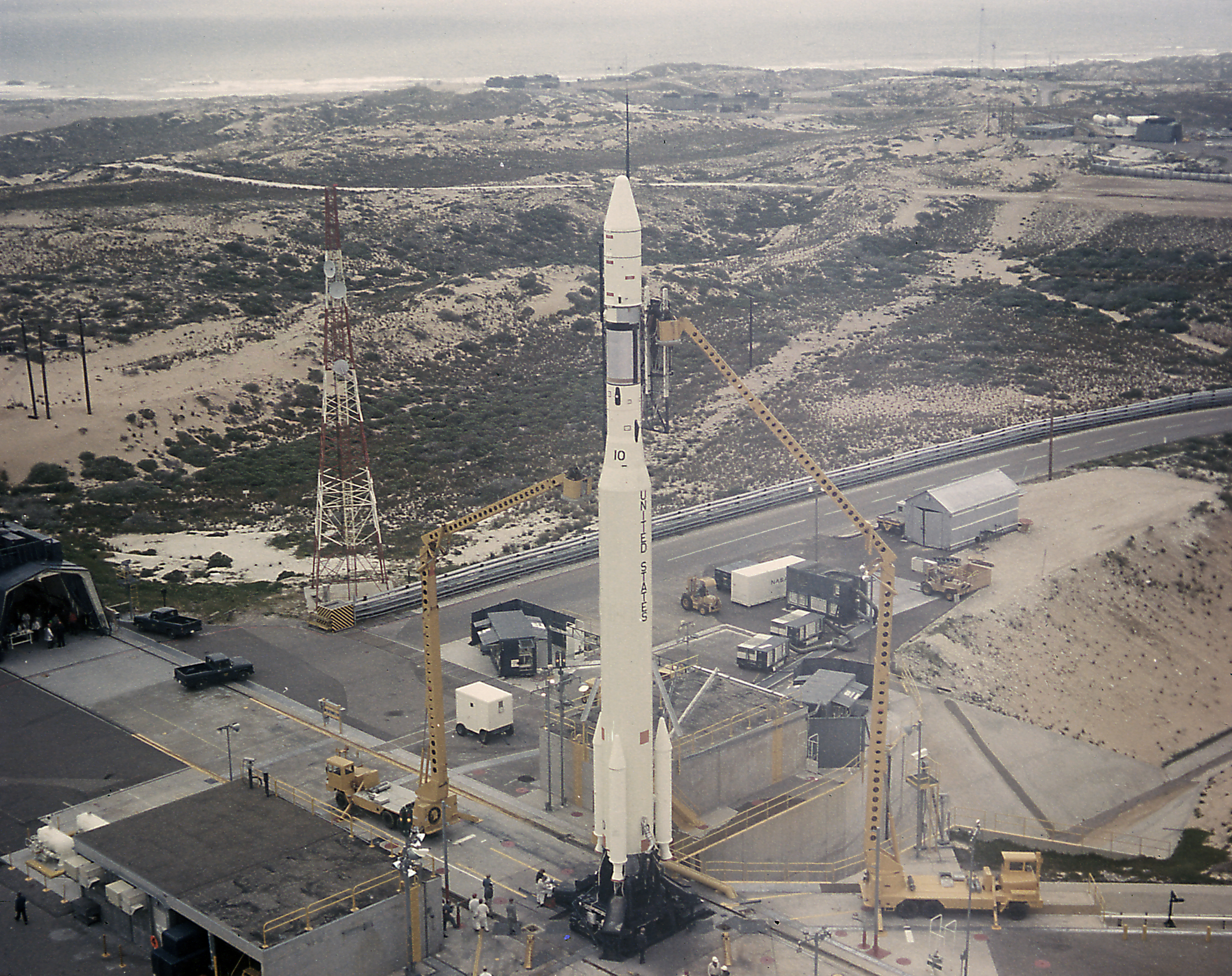 Orginal caption released with the picture: The Thor-Agena-10 launched the Nimbus III, Earth observation and meteorology satellite, on April 13, 1969